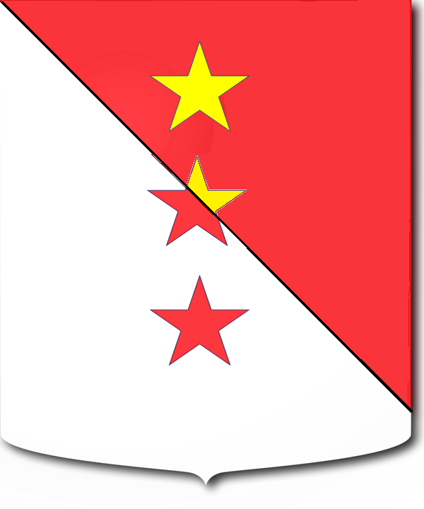 Albertini shield